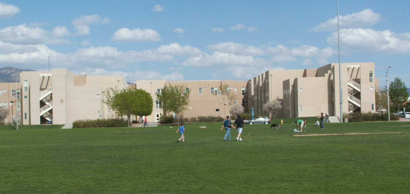 Redondo Village buildings at UNM.